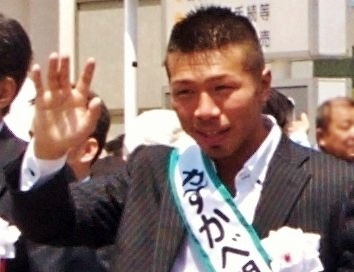 Takashi Uchiyama during his triumphal parade in his hometown Kasukabe, Saitama, Japan, during 2012 Kasukabe Fuji Festival.